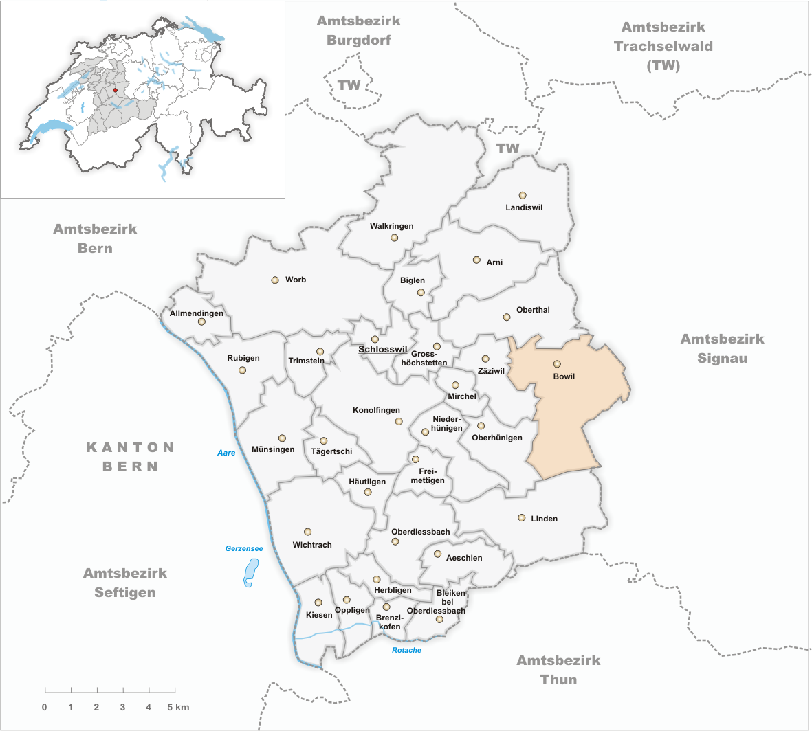 Municipality Bowil